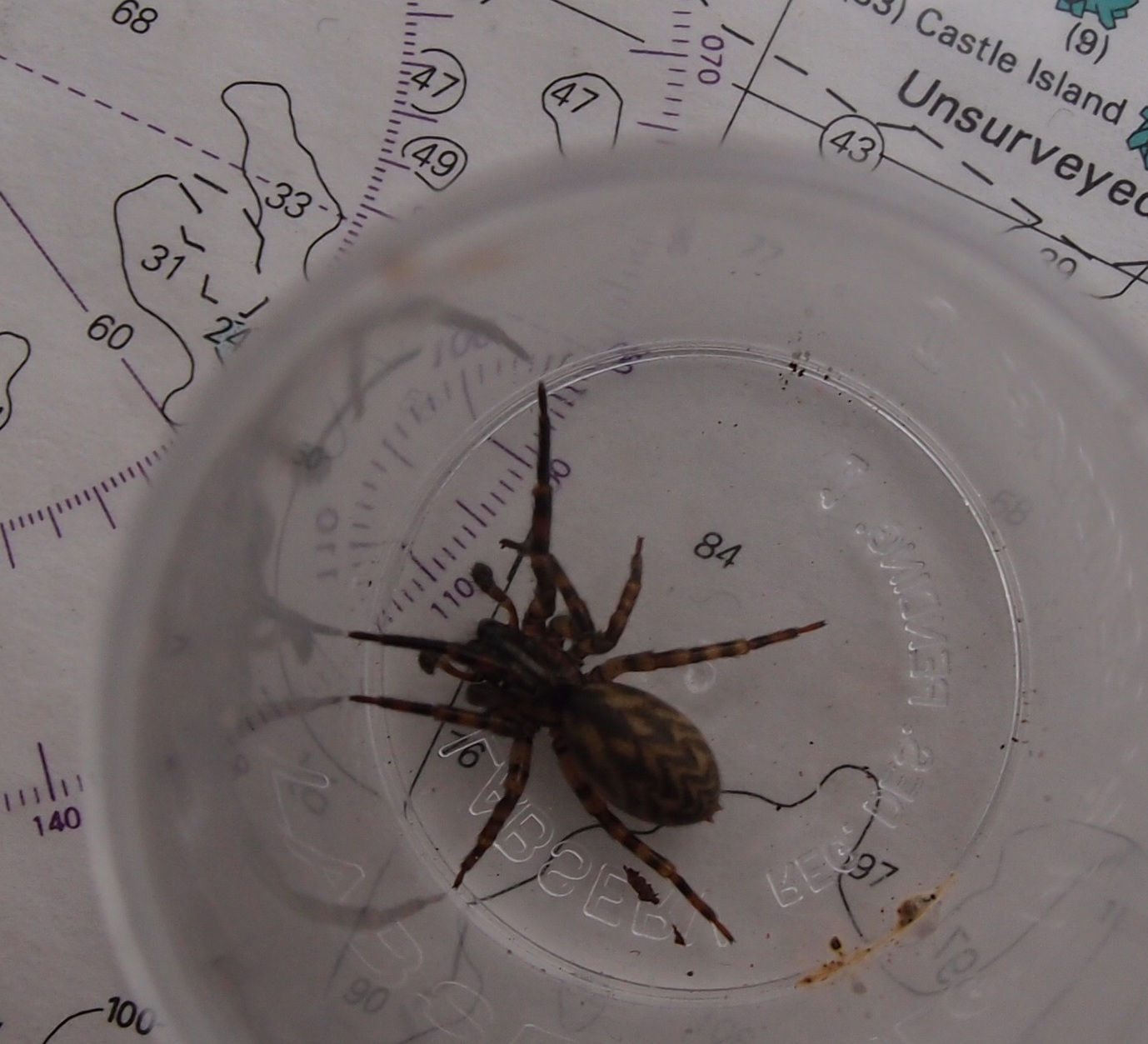 Pacificana cockayni Adult Male (?) found on Proclamation Island, Bounty Islands. New Zealand on 21 Oct 2013